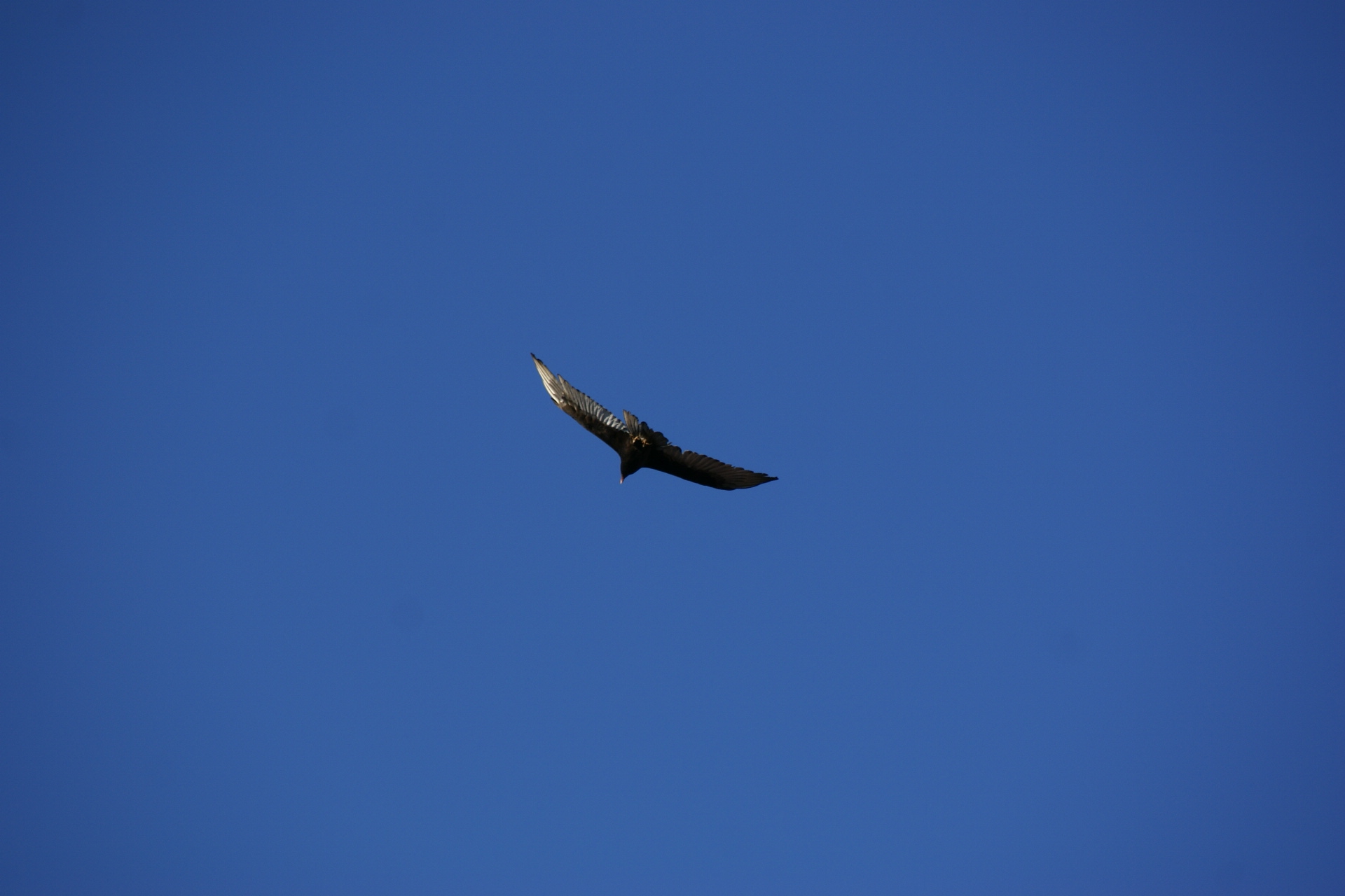 Turkey vulture (Cathartes aura) flying at Maricopa Point, Grand Canyon, Arizona, USA